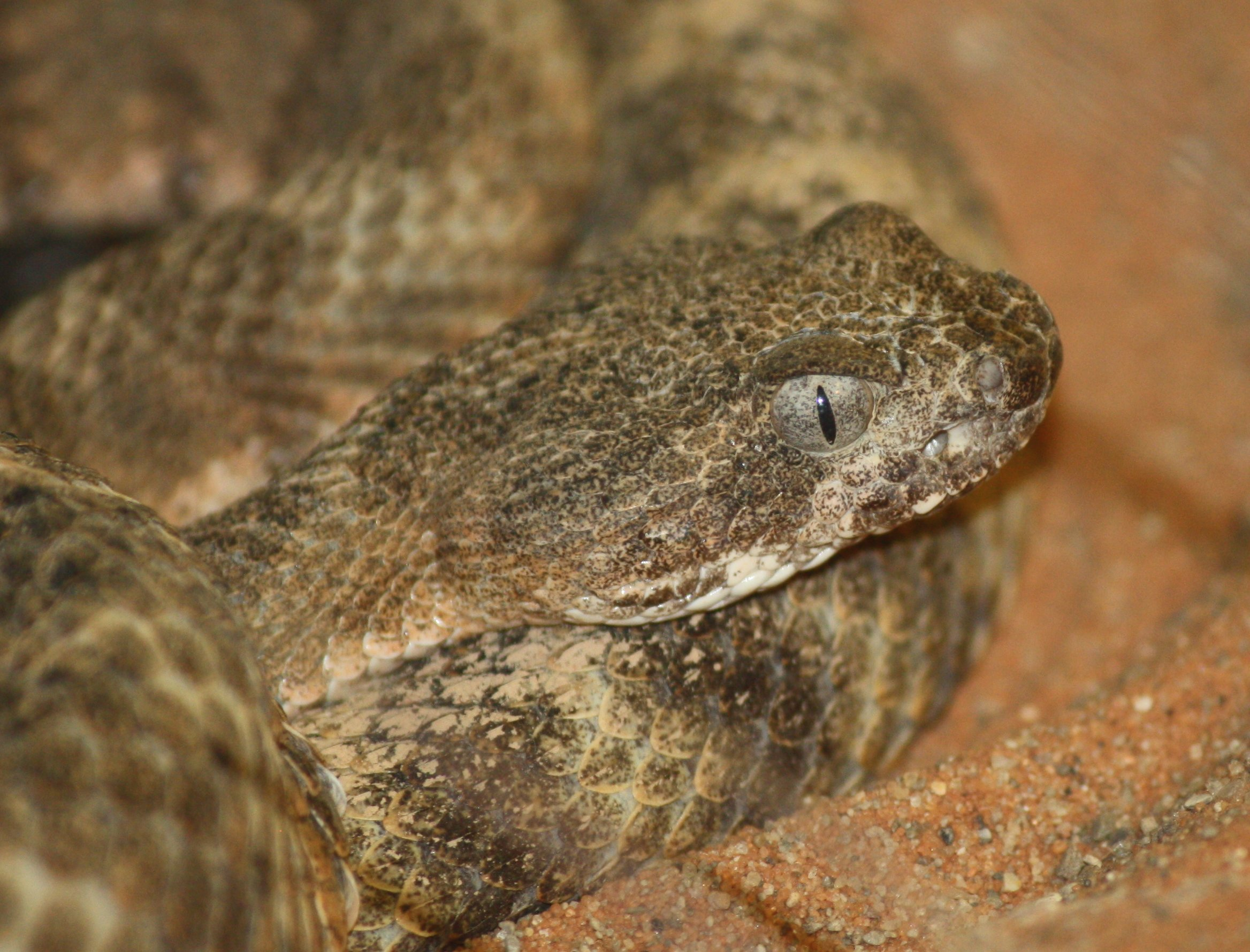 Tiger Rattlesnake Crotalus tigris at the Louisville Zoo